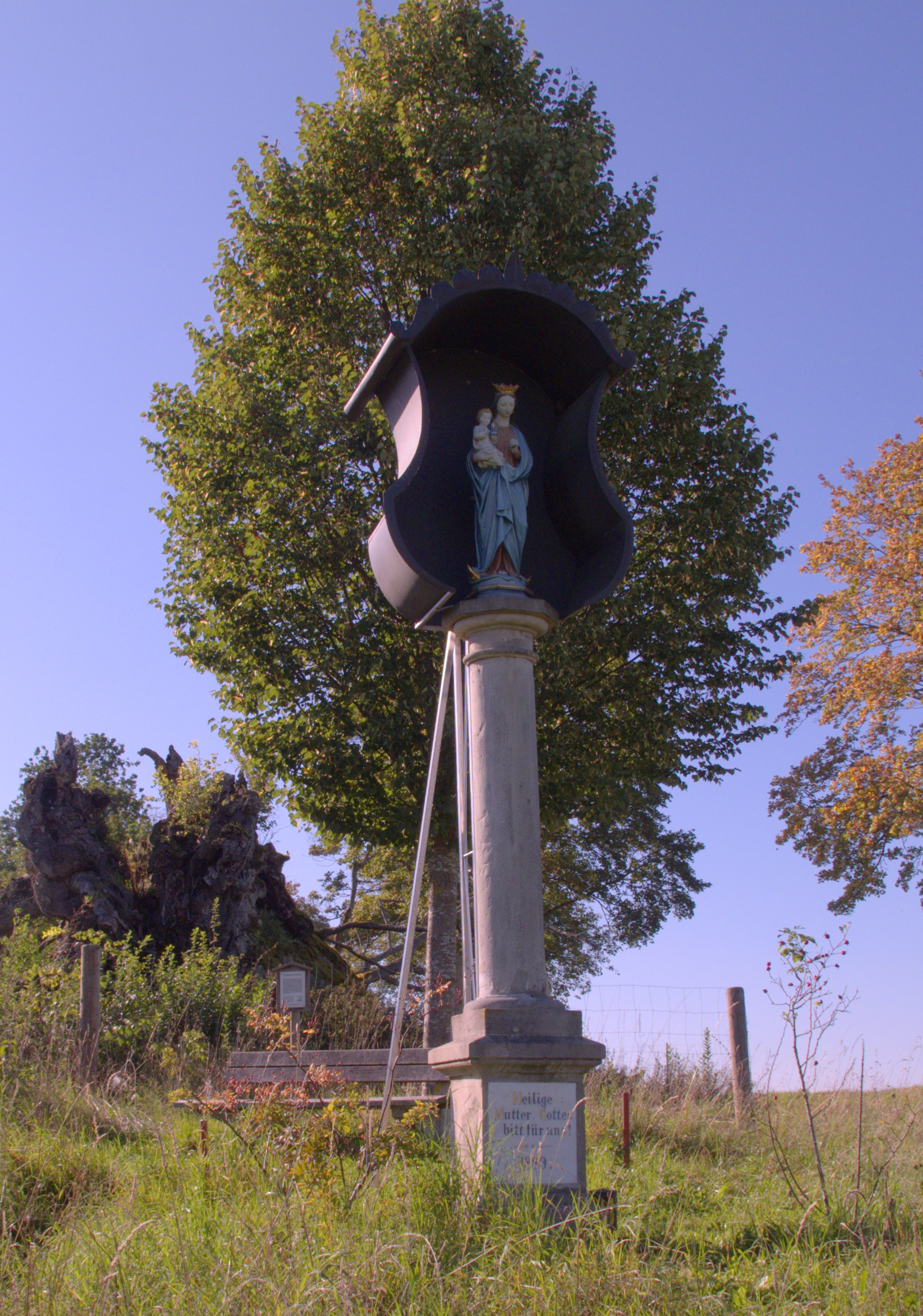 This is a photograph of an architectural monument.